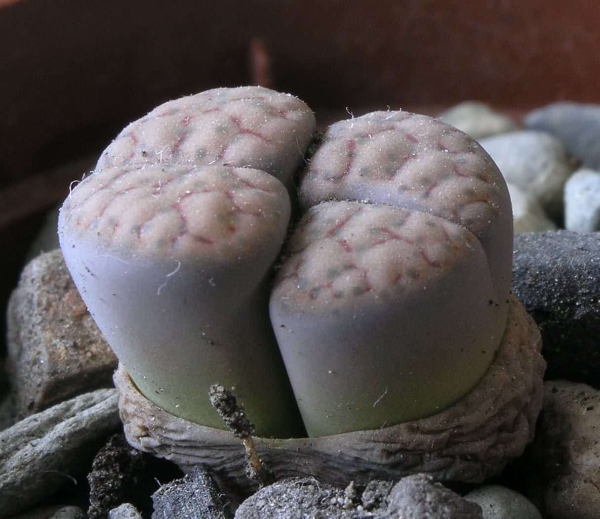 Lithops schwantesii (plant collection of Ivan I. Boldyrev, Berdsk, Russia)